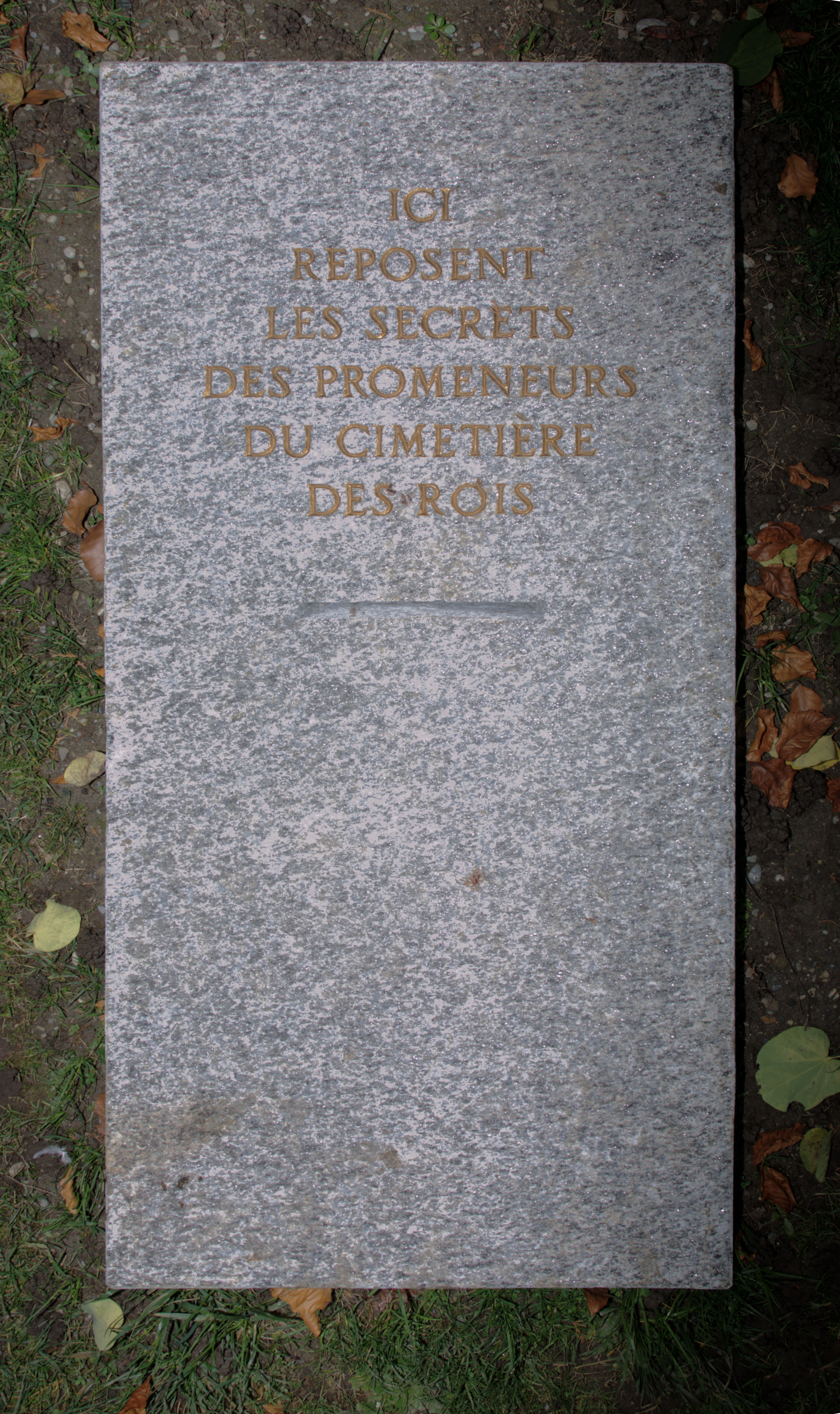 Le Tombeau des secrets, work by Sophie Calle. Kings Cemetery, Geneva.